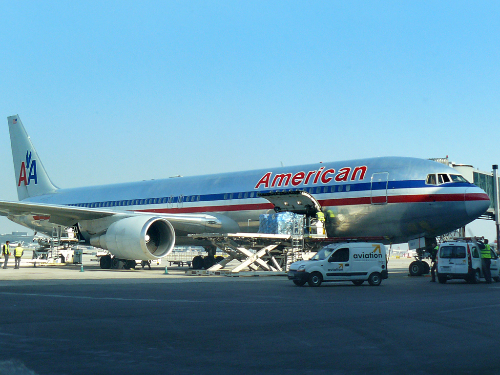 Boeing 767-300ER American Airlines